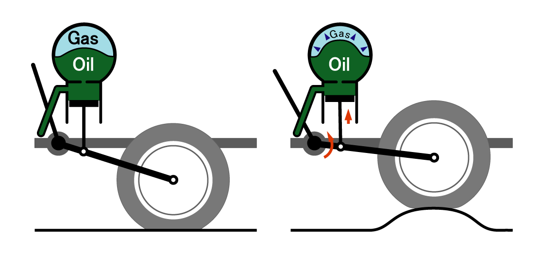 A conception diagram of hydropneumatic suspension.